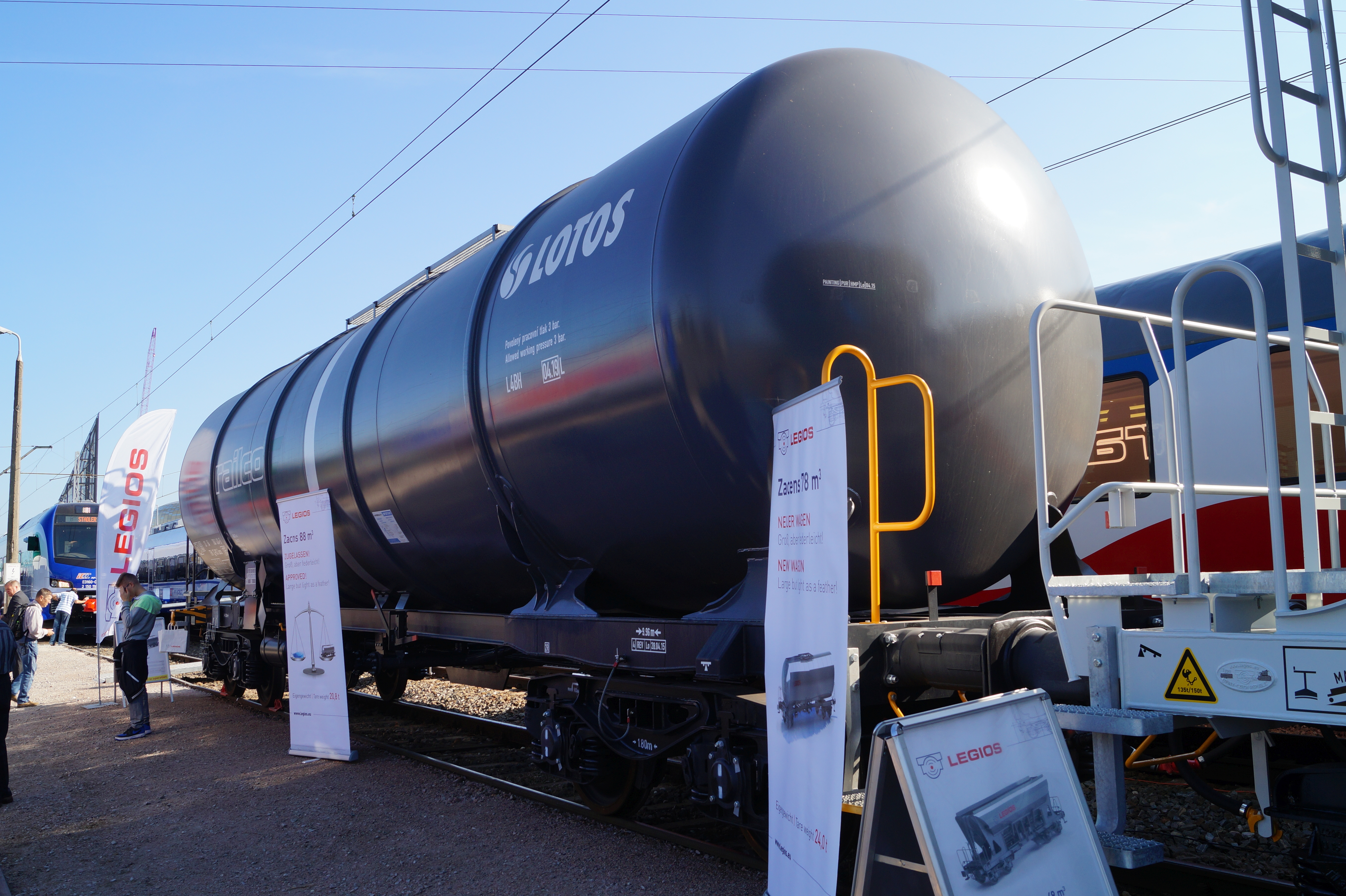 The making of this document was supported by Wikimedia Polska Association, within Wikigrant no. WG 2015-34. English | polski | +/− Cysterna Zacns wystawiana na Targach Trako 2015